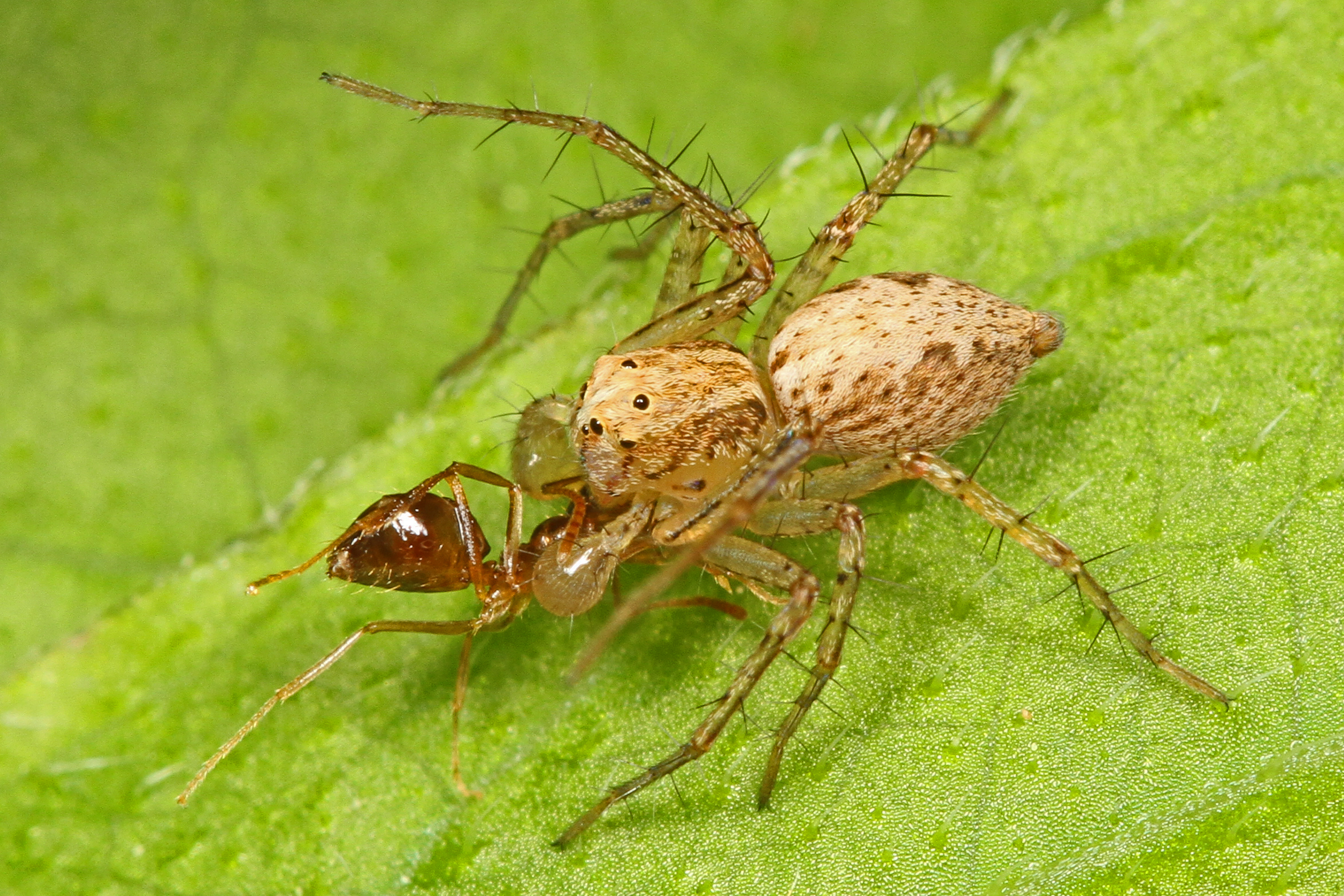 Lynx Spider - Oxyopes aglossus, Merrimac Farm Wildlife Management Area, Aden, Virginia